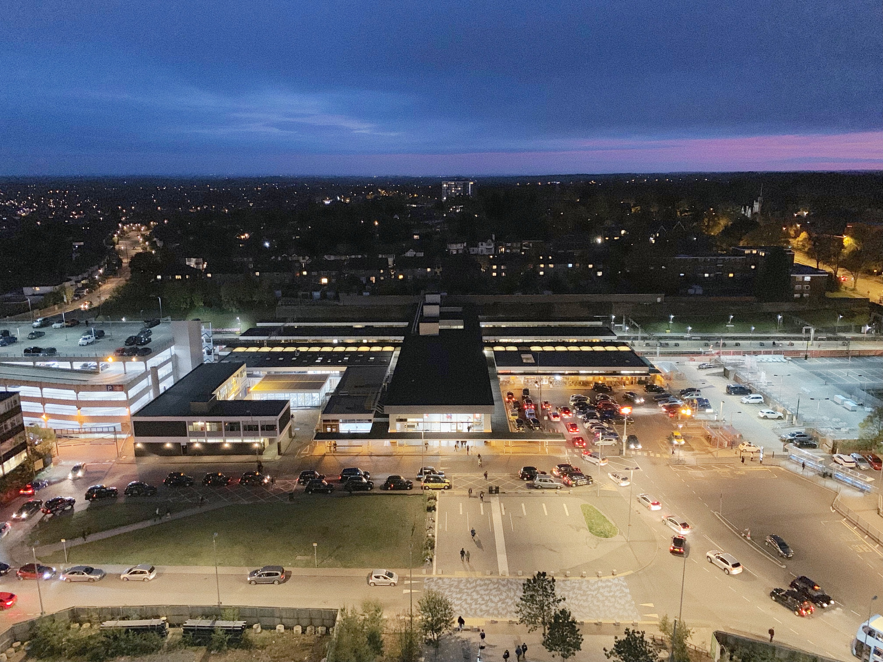 Coventry railway station Coventry railway station taken from the balcony of One Friargate in Coventry, United Kingdom on 23 October 2018 18:31:44.